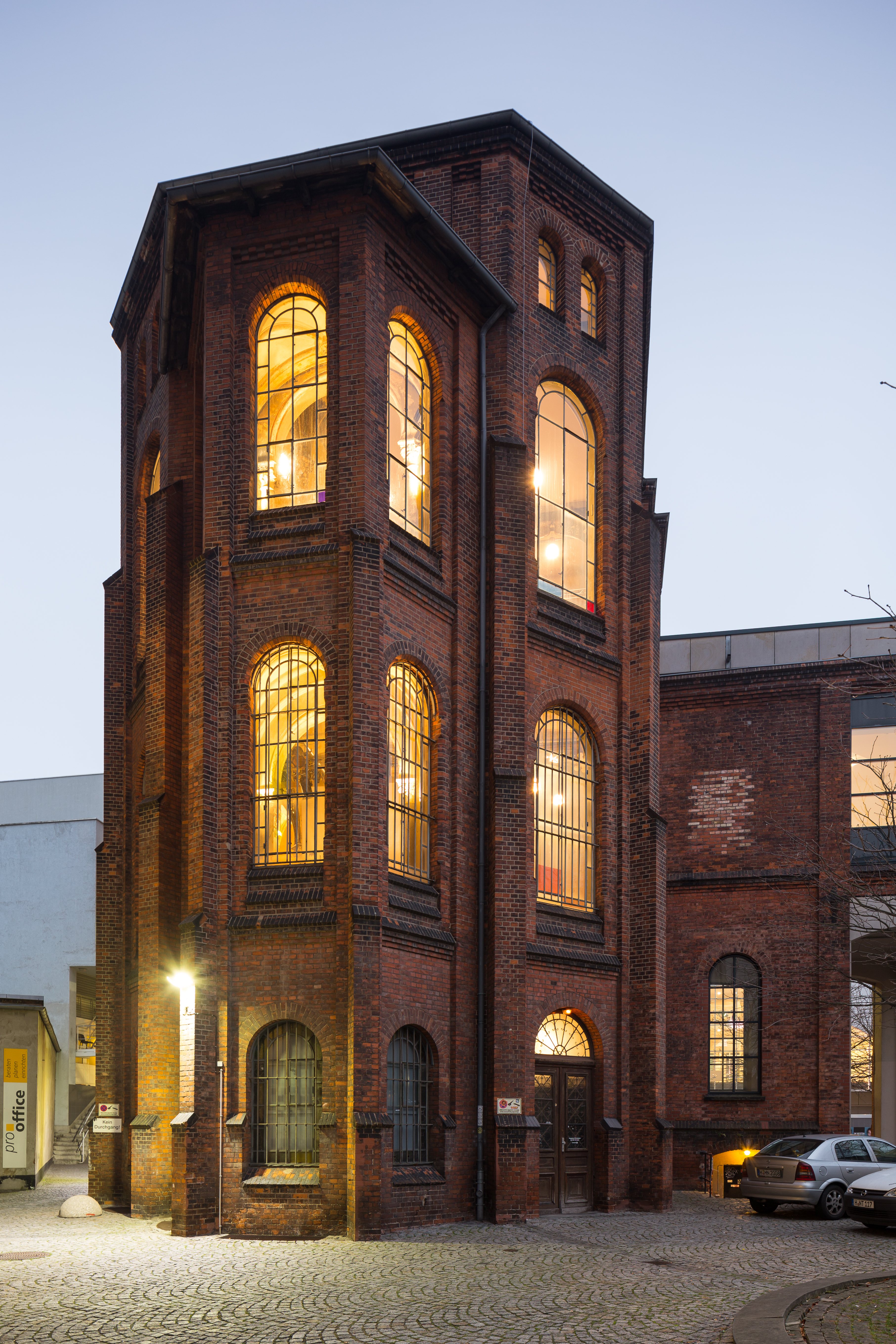 Rear house of the playhouse Hannover, the former "Cumberlandsche Galerie", located at Prinzenstrasse no. 9 in Hannover, district Mitte, Germany.